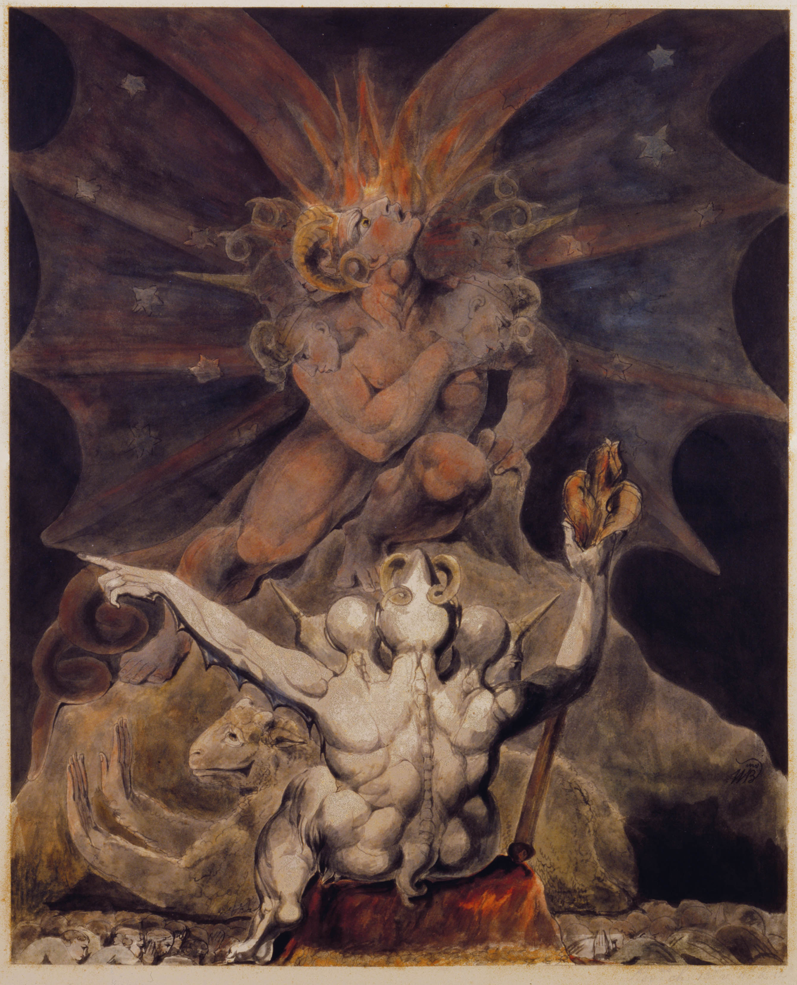 The Number of the Beast is 666, object 1 (Butlin 522) "The Number of the Beast is 666"